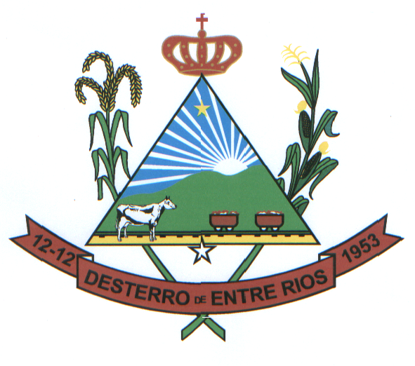 Brasão de Desterro de Entre Rios - MG